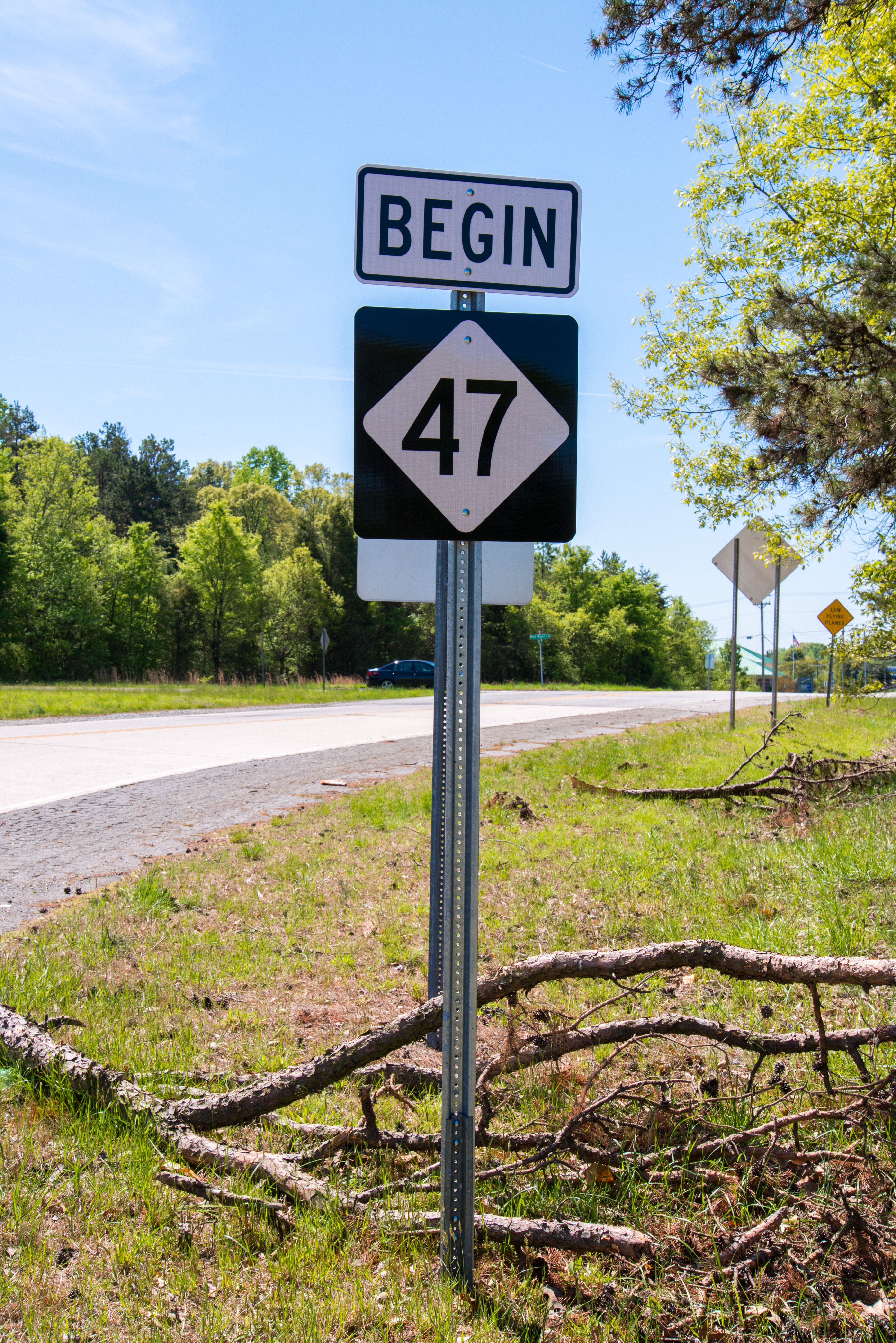 Begin of NC 47 east, in Lexington, North Carolina. It is located right at off-ramp of northbound I-85 Bus/US 29/US 52/US 70.